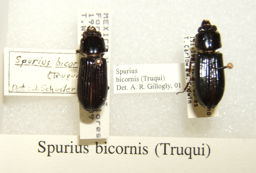 Spurius bicornis adult taken by Shawn Hanrahan at the Texas A&M University Insect Collection in College Station, Texas.